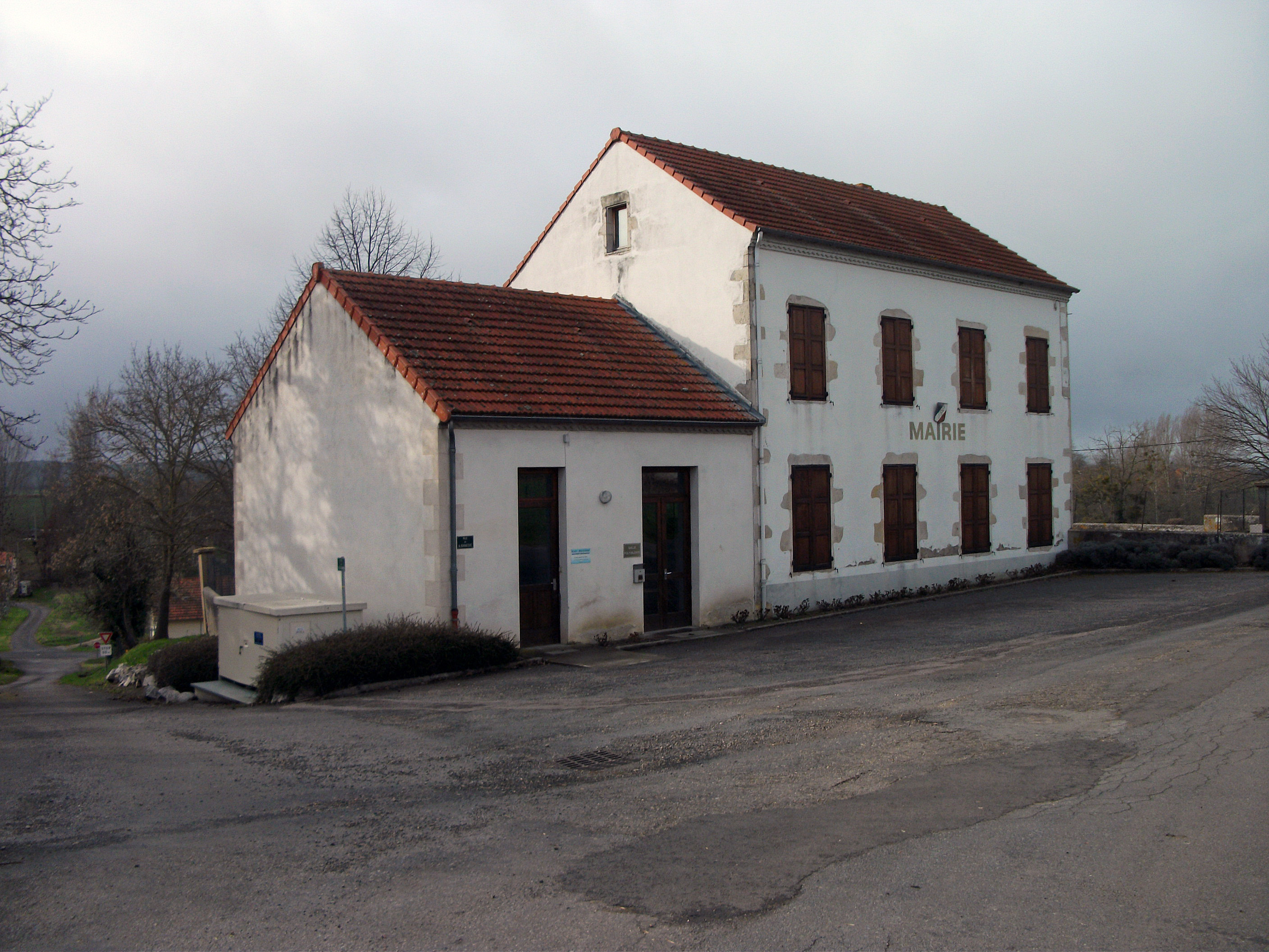 Town hall of Monteignet-sur-l'Andelot [10198]